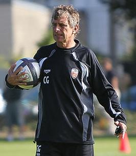 Crhistian Gourcuff, FC Lorient's soccer coach, during a training session during summer 2010